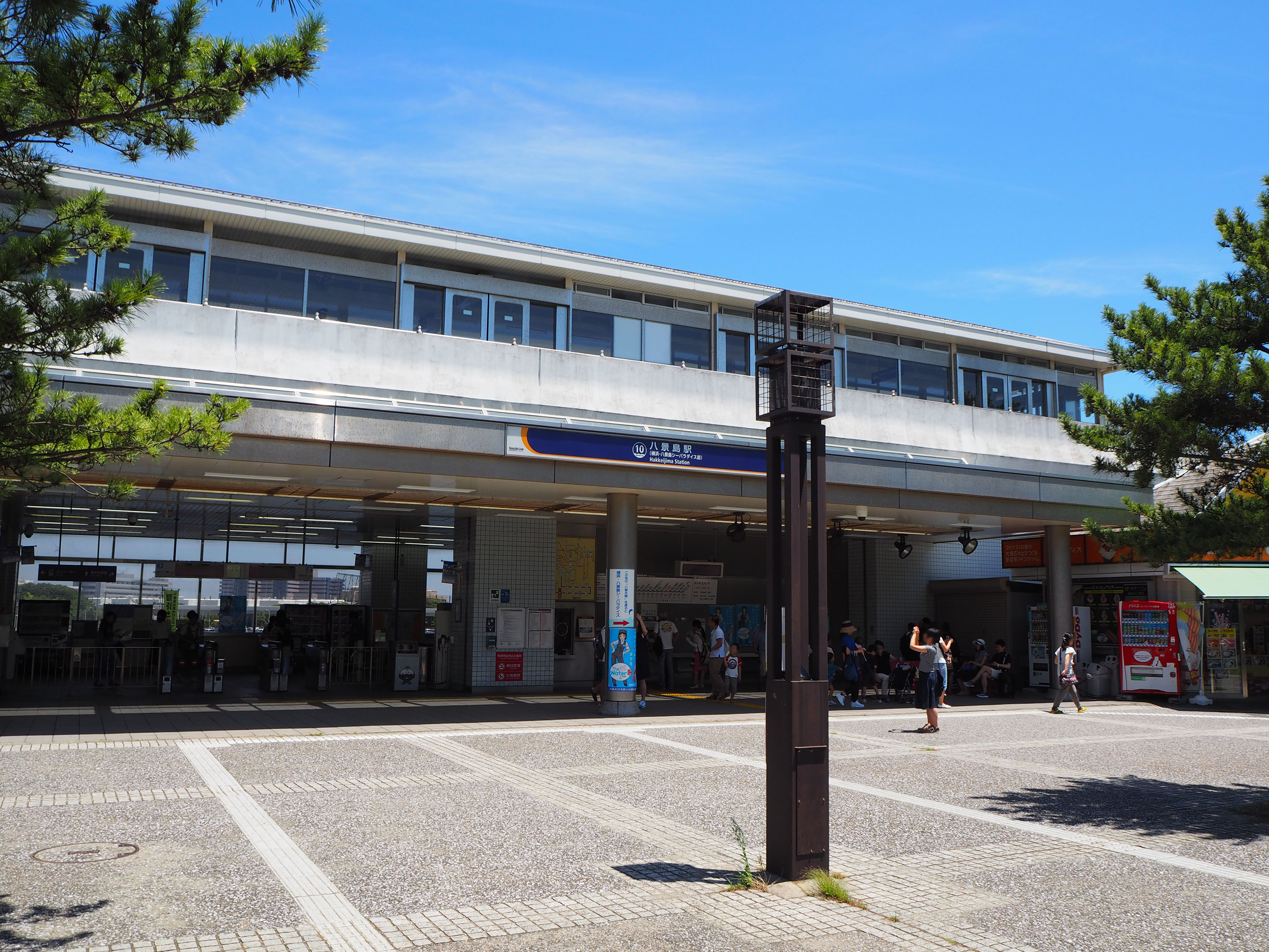 Hakkeijima Station